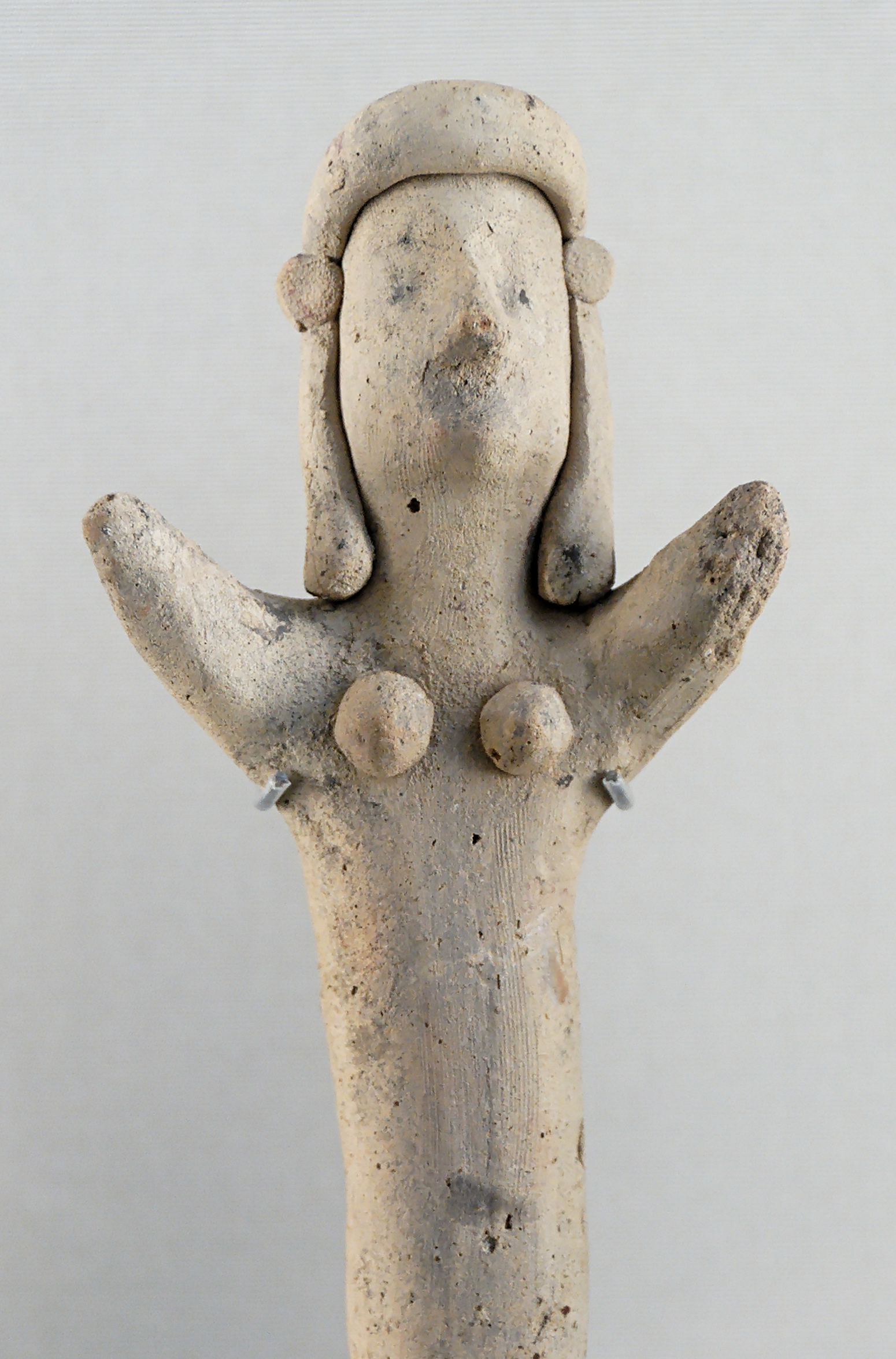 Female figure with hands raised, polychrome terracotta, Cypro-Archaic Age (7th century BC), Cyprus.